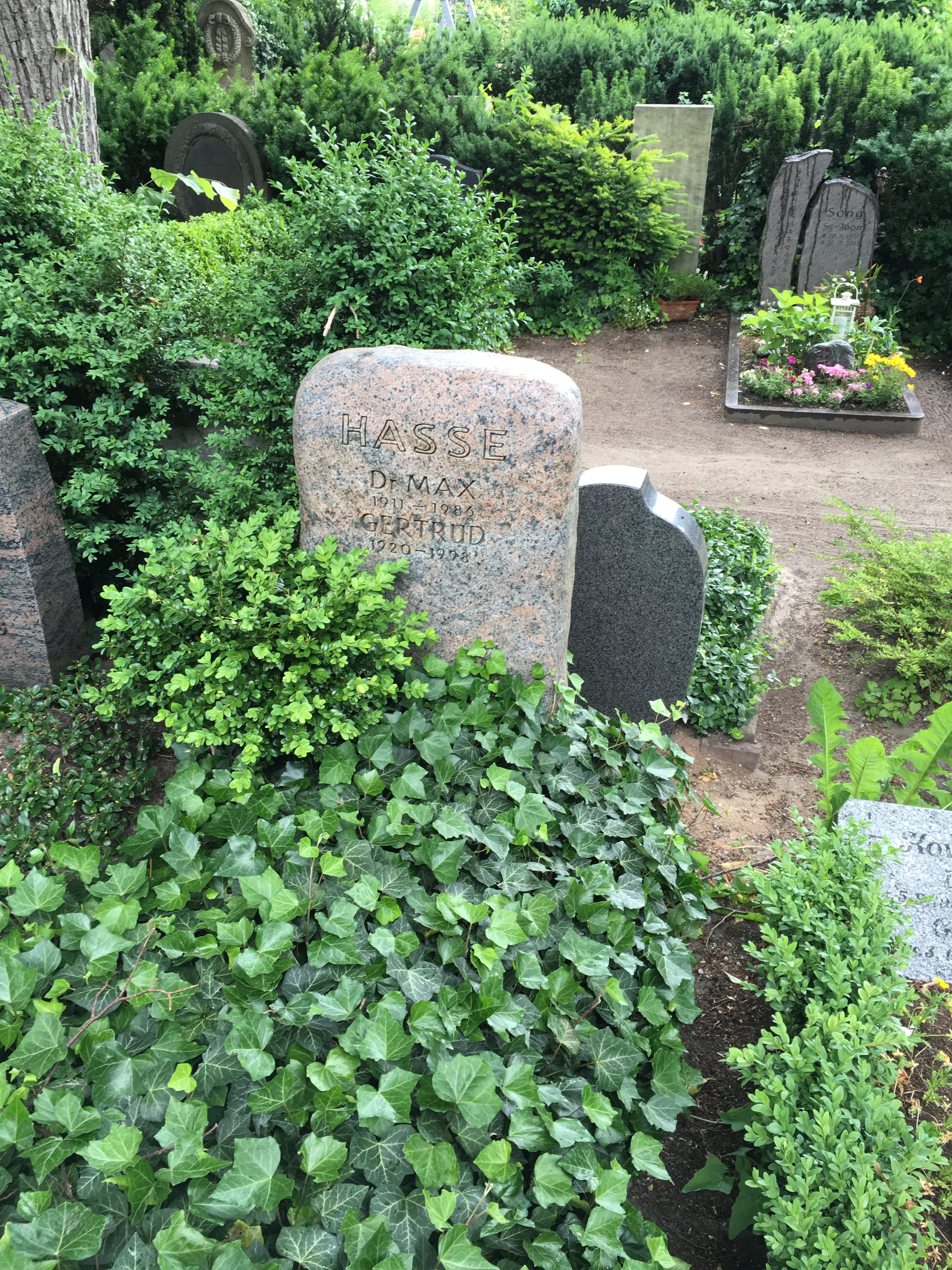 Friedhof St. Jürgen, grave Dr. Max Hasse